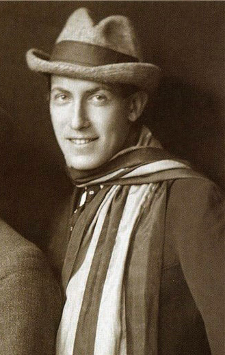 Anatoly Marienhof